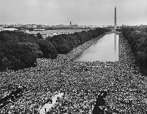 View of the crowd at 1963 Civil Rights March on Washington, D.C. A wide-angle view of marchers along the mall, showing the Reflecting Pool and the Washington Monument.